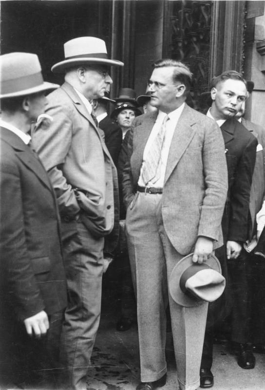 Berlin, after a session of the Prussian Landtag, Otto Braun, Adolf Grimme First session of the Landtag (1932) Former Minister-President Braun (left) and Prussian Culture Minister Grimme at the end of the inaugural session of the Prussian Landtag. Dr. Otto Braun (Social Democratic Party of Germany, SPD) and Adolf Grimme (SPD) in conversation in front of the Landtag building (May 24, 1932)